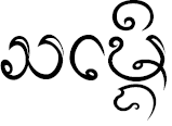 Lanna-Name of District in the North of Thailand